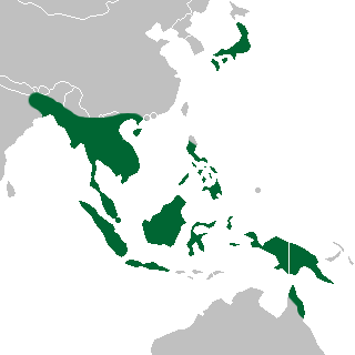 Distribution map